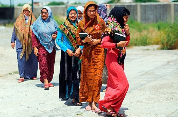 Ramadan Quran Reading by Juz' in Bandar Torkaman. see full gallery